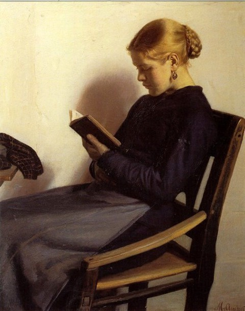 A young girl reading